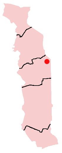 Tchamba, Togo Location Map; created with the GIMP. Made by User:Acntx.